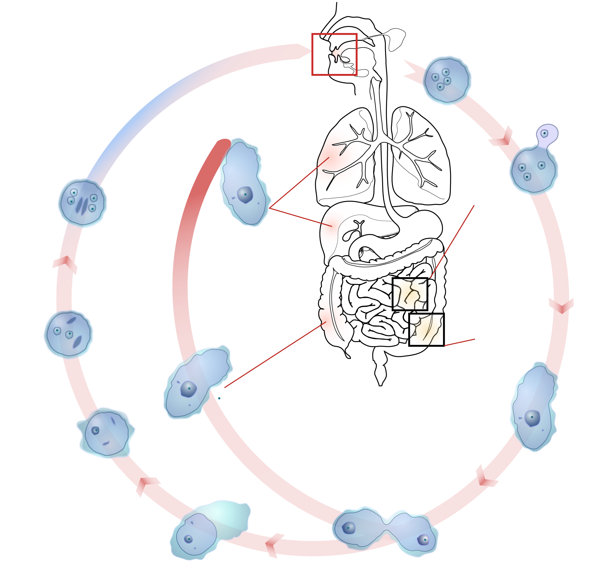 PNG without labels from Image:Entamoeba histolytica life cycle-en.svg. Entamoeba histolytica is an anaerobic parasitic protozoan, part of the genus Entamoeba. It infects predominantly humans and other primates.